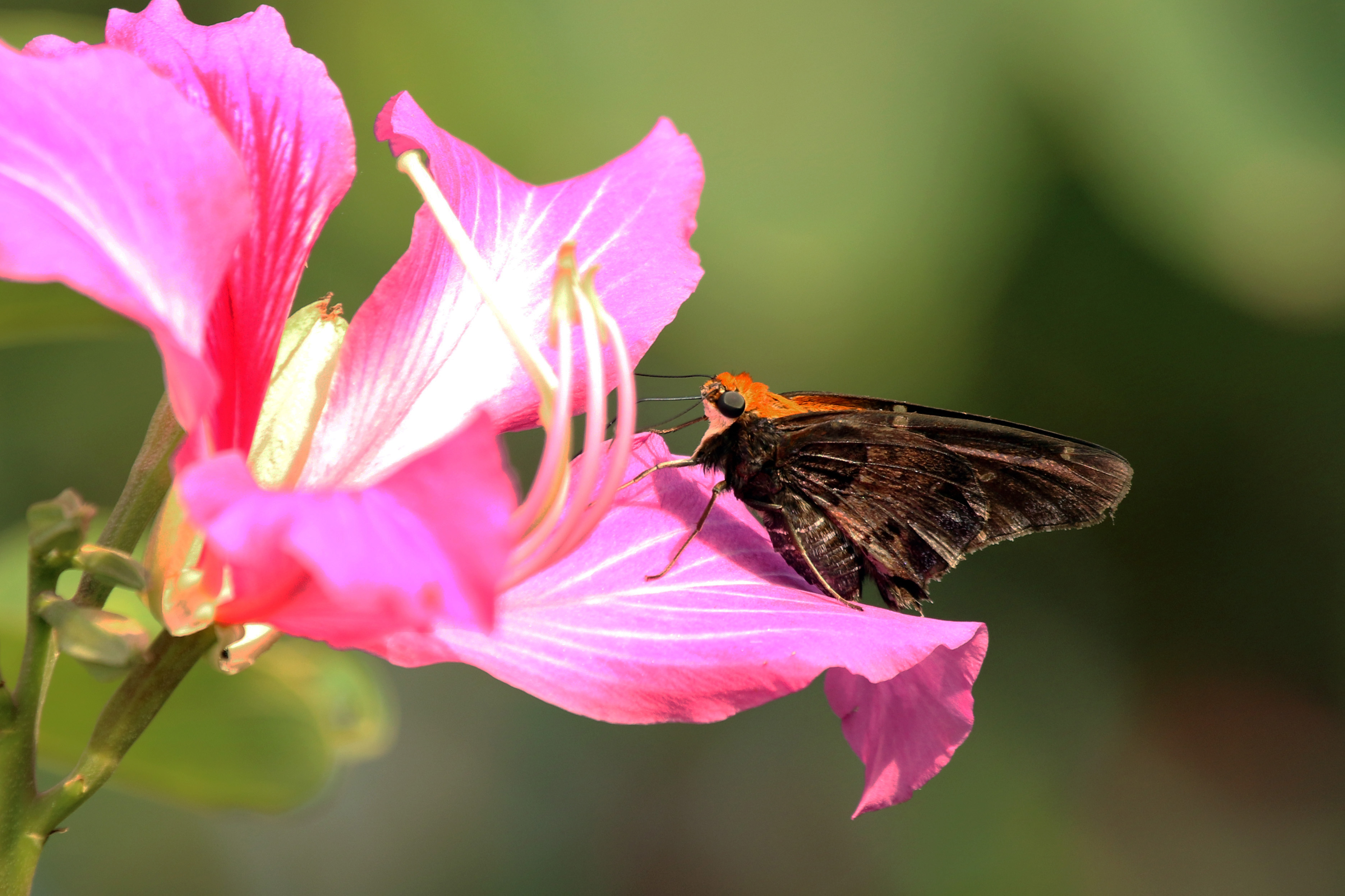 Mercurial skipper butterfly (Proteides mercurius jamaicensis) in Jamaica